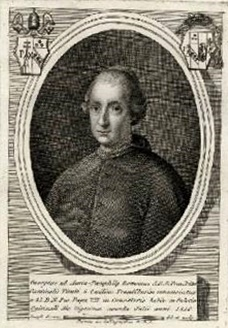 Kardinal Giorgio Doria Pamphilj Landi (1772-1837)